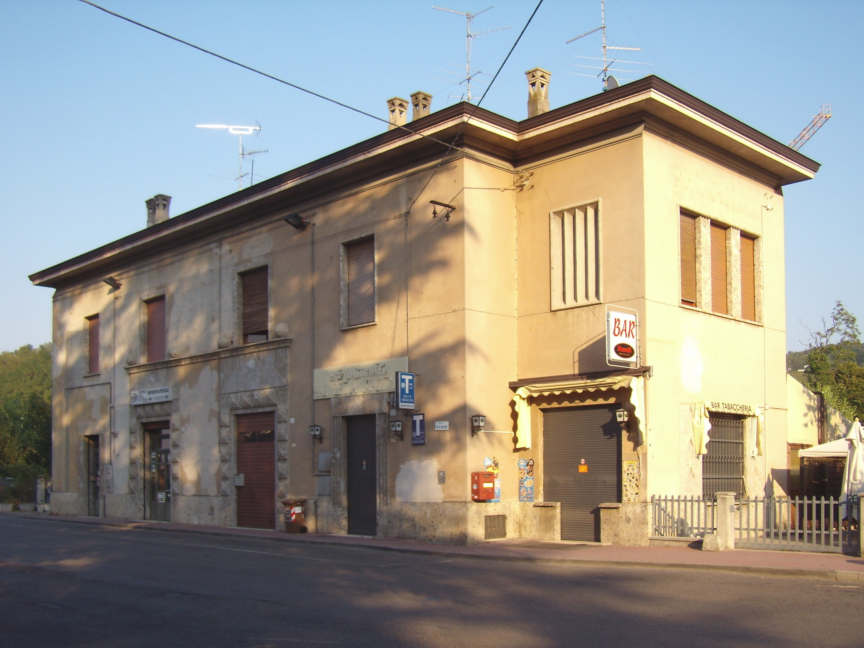 Old railway station in Ponte dell'Olio (PC), Italy.